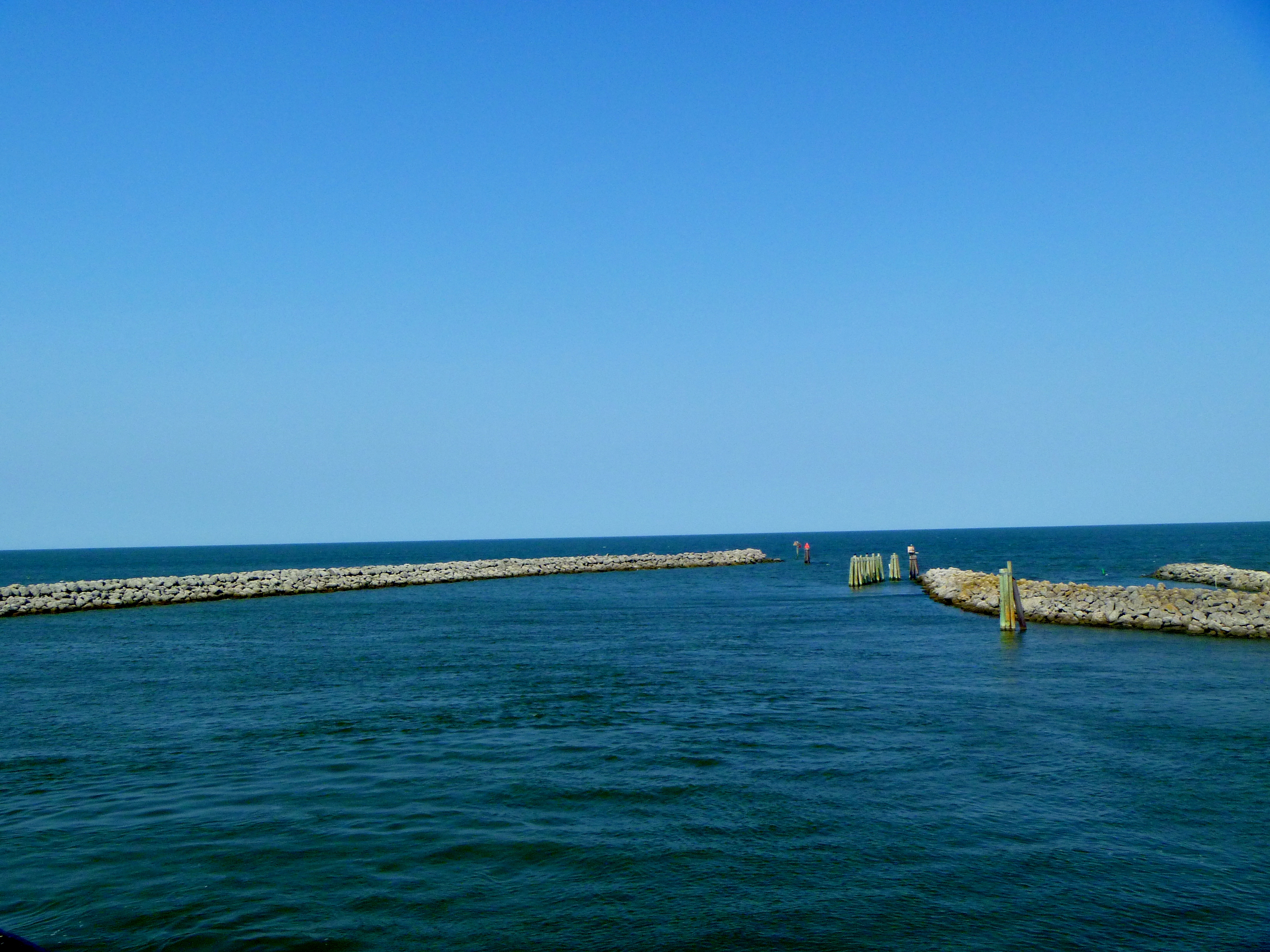 Ferry harbor at Cedar Island